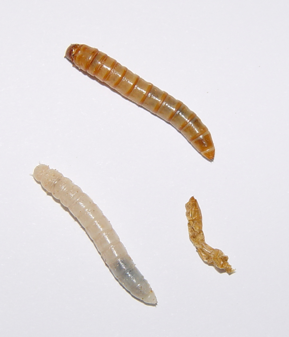 Larvae of the meal worm beetle (Tenebrio molitor), before (dark) and after skinning (light) German description: Larven des Mehlkäfers (Tenebrio molitor), vor (dunkel) und nach (hell) der Häutung